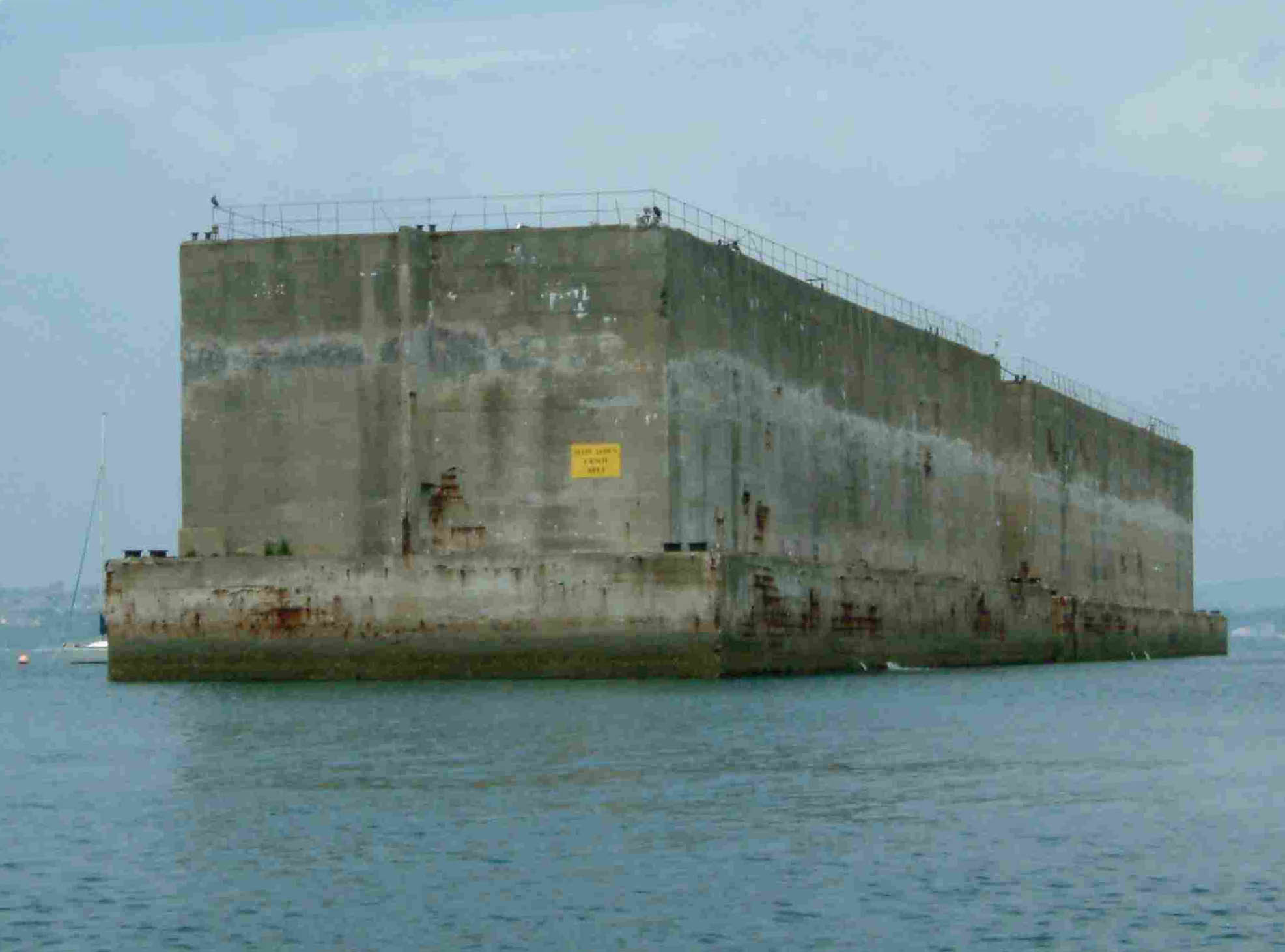 Pair of Phoenix breakwaters, a component of a Mulberry harbour, at Portland (England), as used off the WWII D-Day beaches.